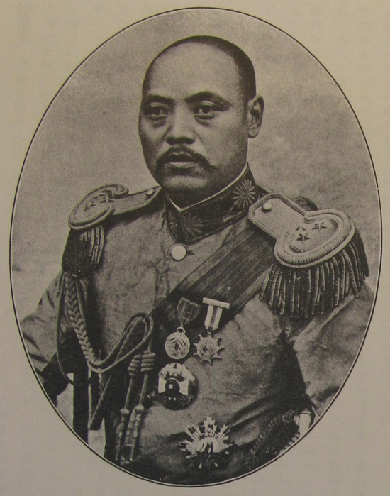 Jin Yunpeng (simplified